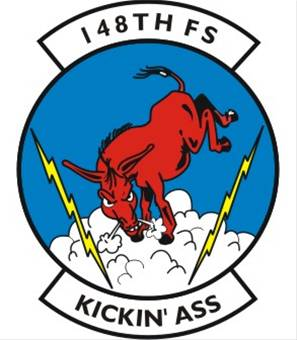 Emblem of the 148th Fighter Squadron, 162nd Fighter Wing, Arizona Air National Guard, U.S. Air Force.